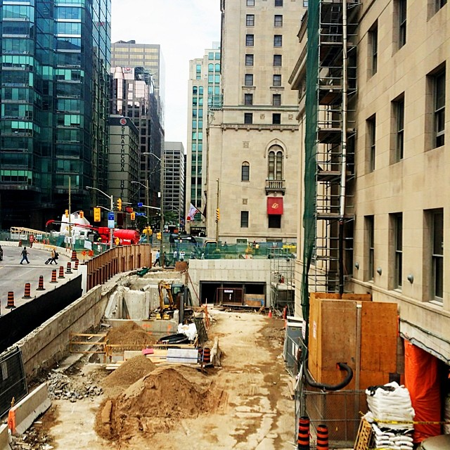 Coming new PATH path! Will provide extra access to GO's new western concourse at Toronto Union Station.